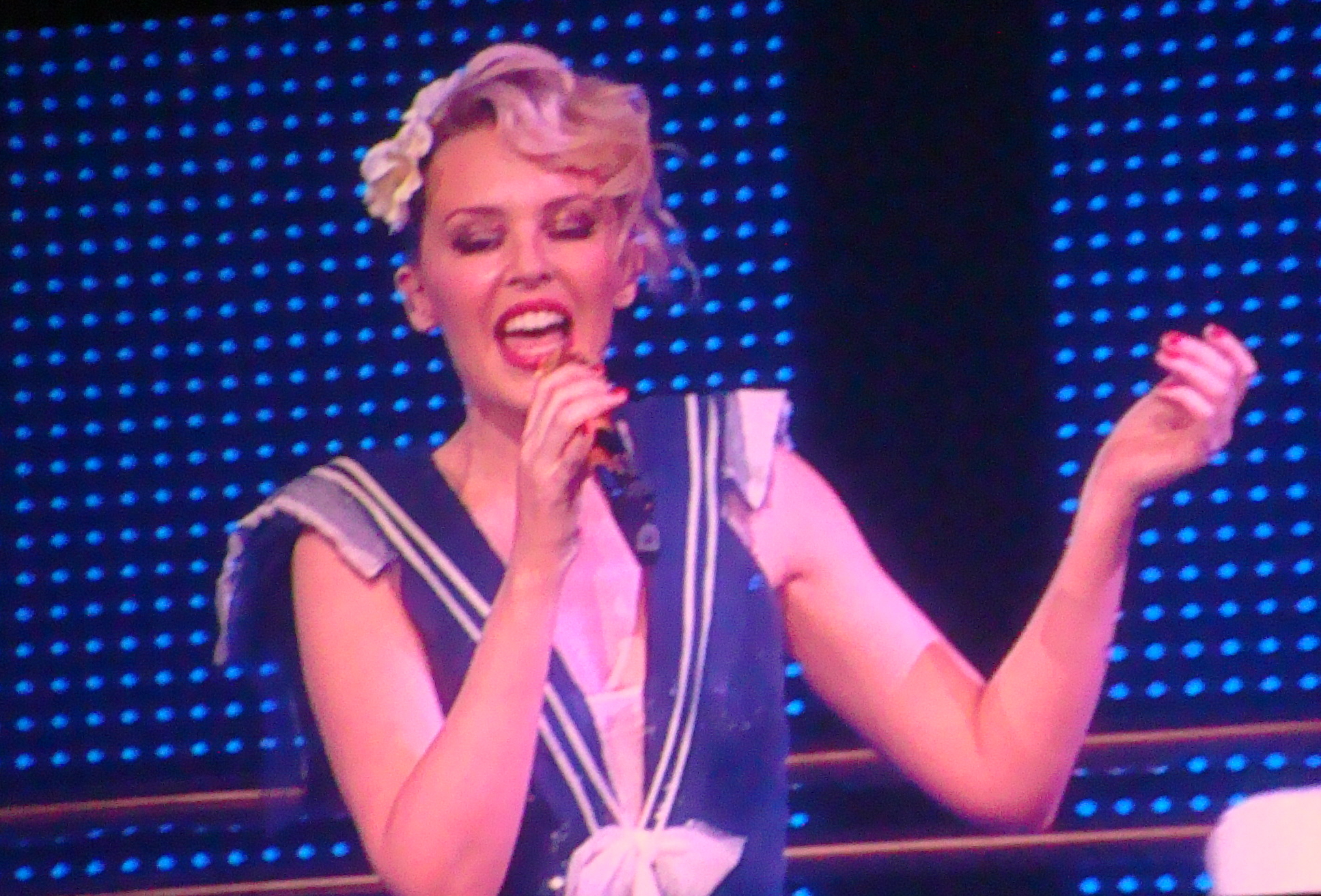 Kylie Minogue on tour.